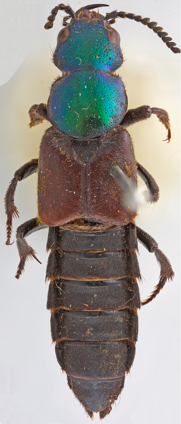 Habitus of the holotype of Darwinilus sedarisi Chatzimanolis. Total length = 21.5 mm Image Copyright Natural History Museum (London).